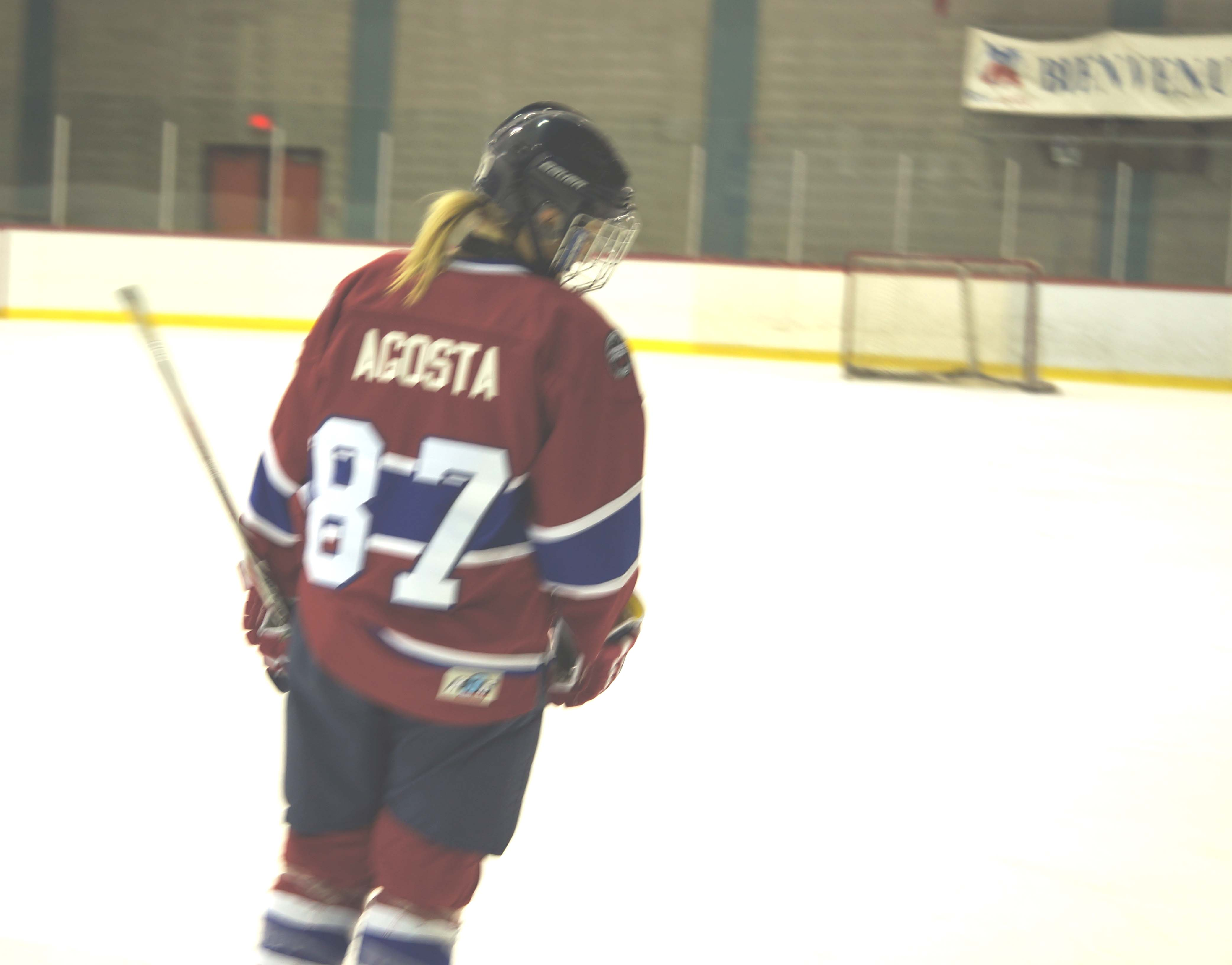 Meghan Agosta , Forward Montreal Stars